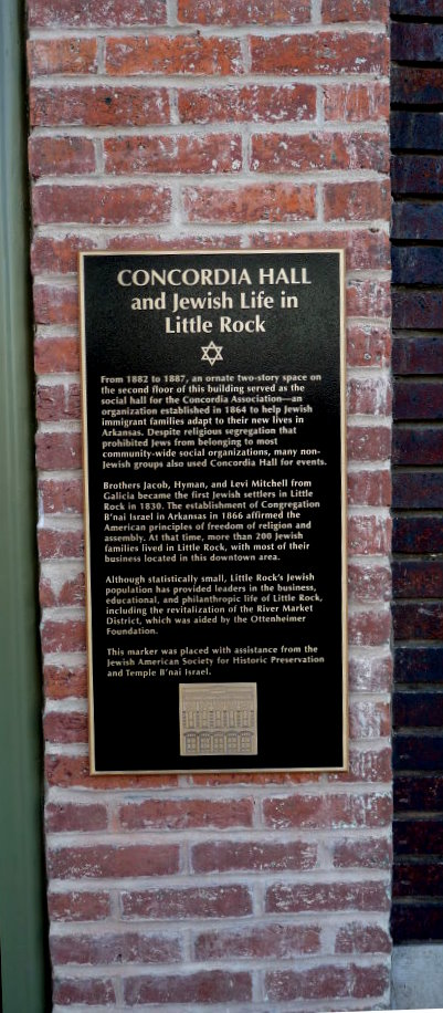 Little Rock, Arkansas marker